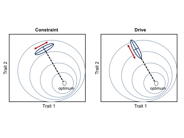 Morphospace and fitness landscape with a single fitness optimum. If the main axis of variation (largest axis of the white ellipse) is orthogonal to the direction of selection (dashed line), trait covariation will constrain adaptive evolution. Conversely, if the main axis of variation is aligned with the direction of selection, trait covariation will facilitate adaptive evolution.